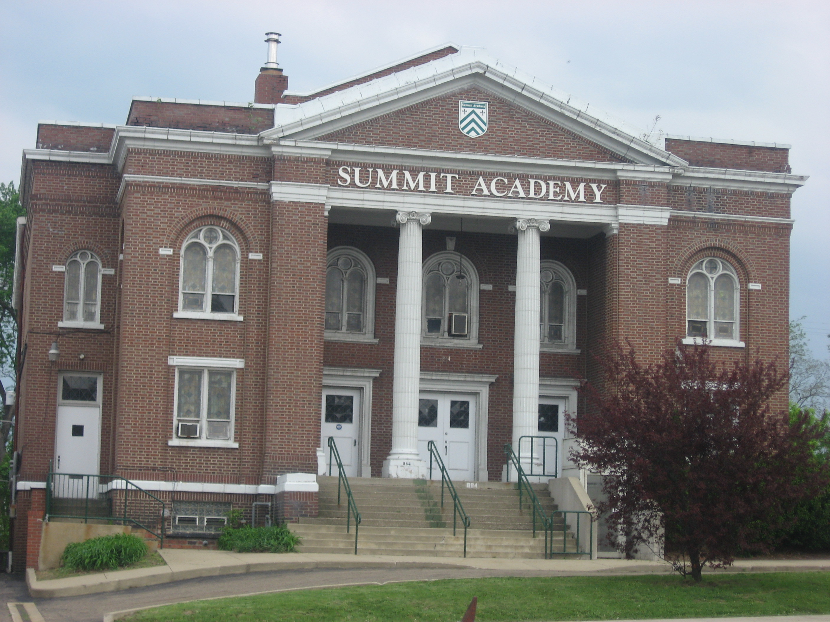 Front of the former East Market Street Church of Christ (now a school), located at 864 E. Market Street (State Route 18) in Akron, Ohio, United States. Built in 1912, it is listed on the National Register of Historic Places.